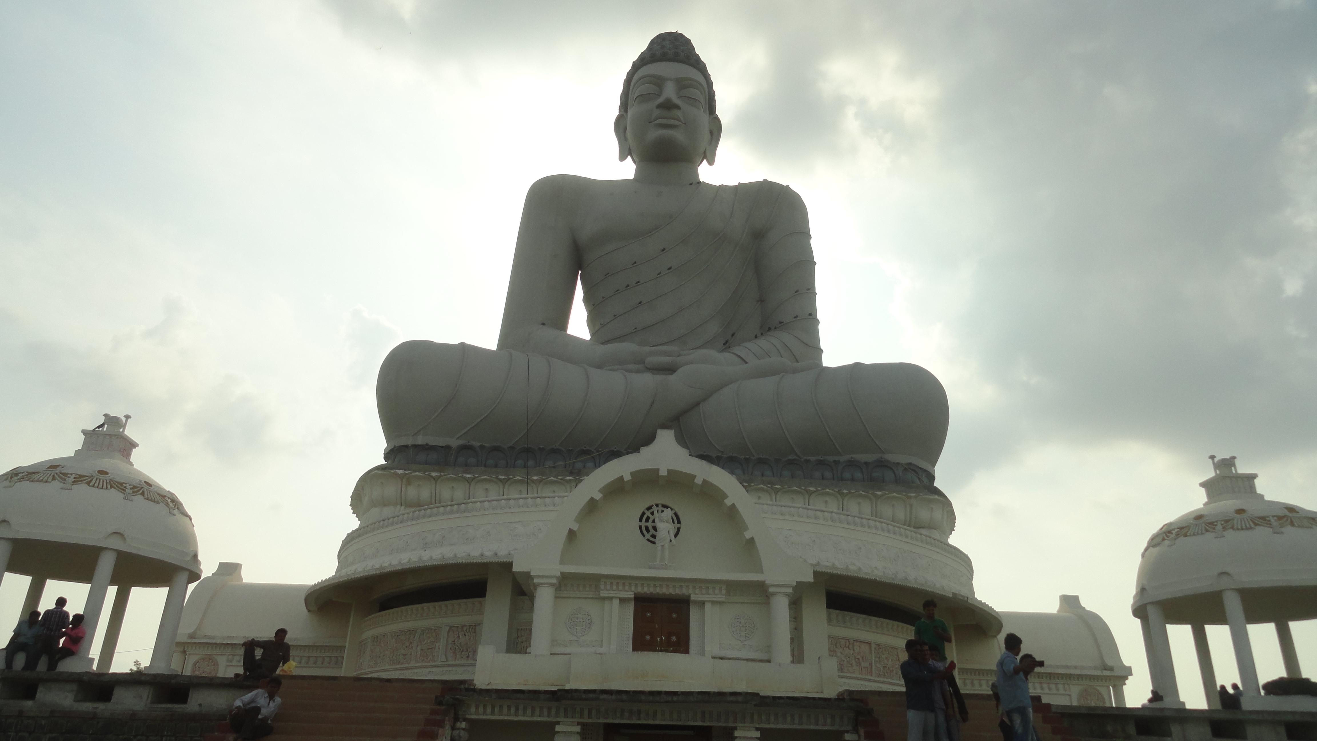 buddha statue at amaravati